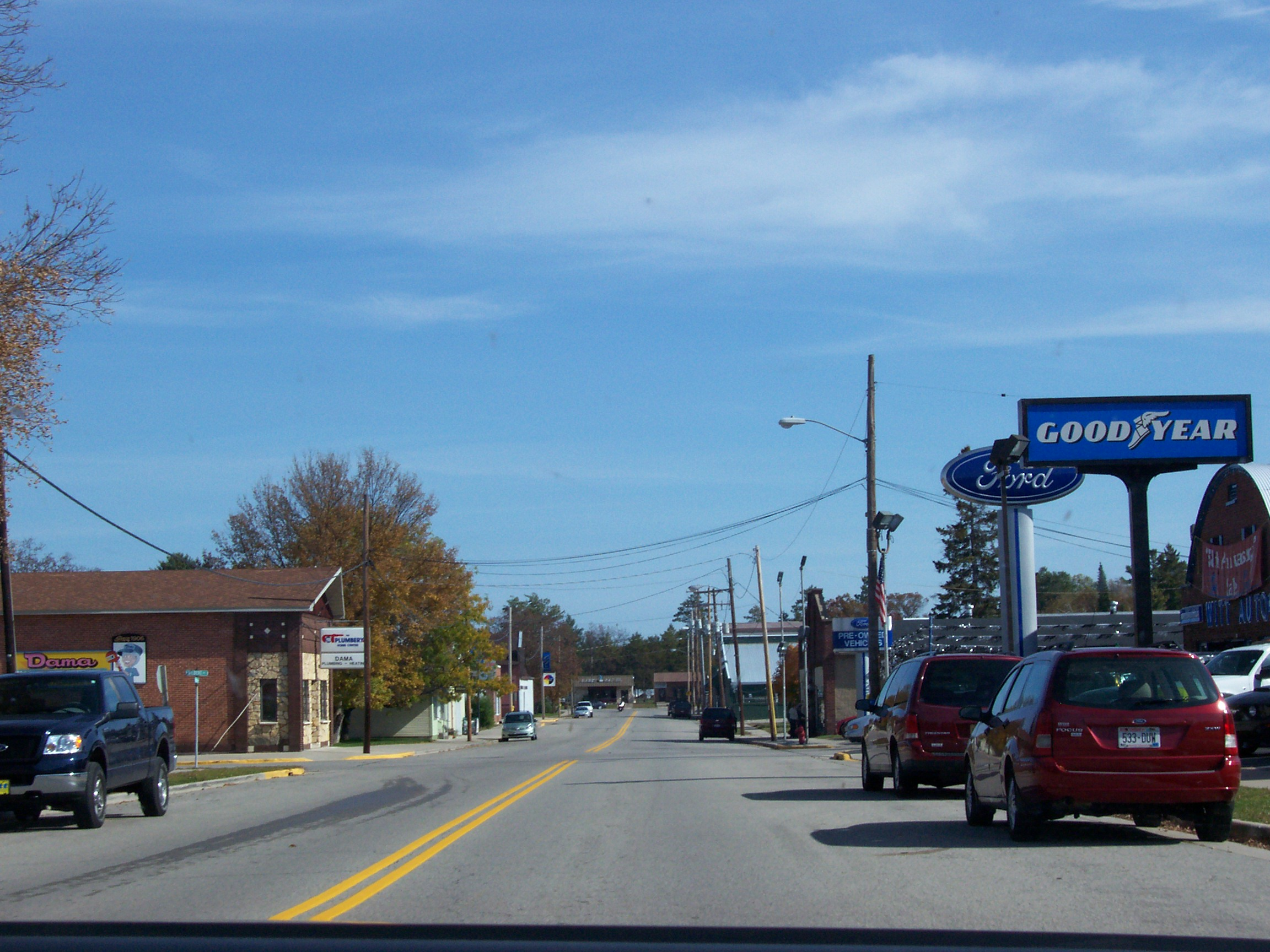 Looking east while travelly on County Highway W in Crivitz, Wisconsin, United States. This image was taken October 7, 2006 by User:Royalbroil (image date is wrong) Category:Images of Wisconsin highways